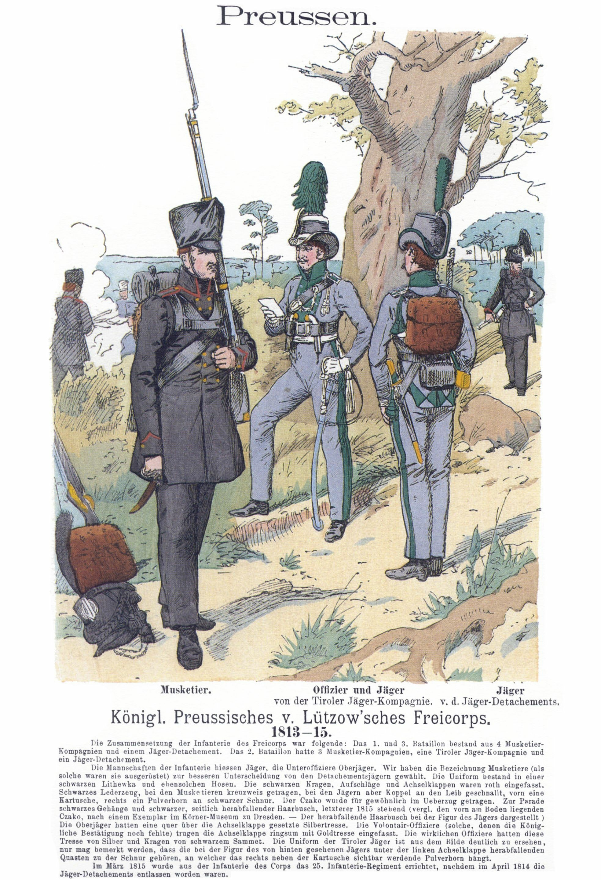 Royal Prussian Lützow Free Corps, 1813-1815